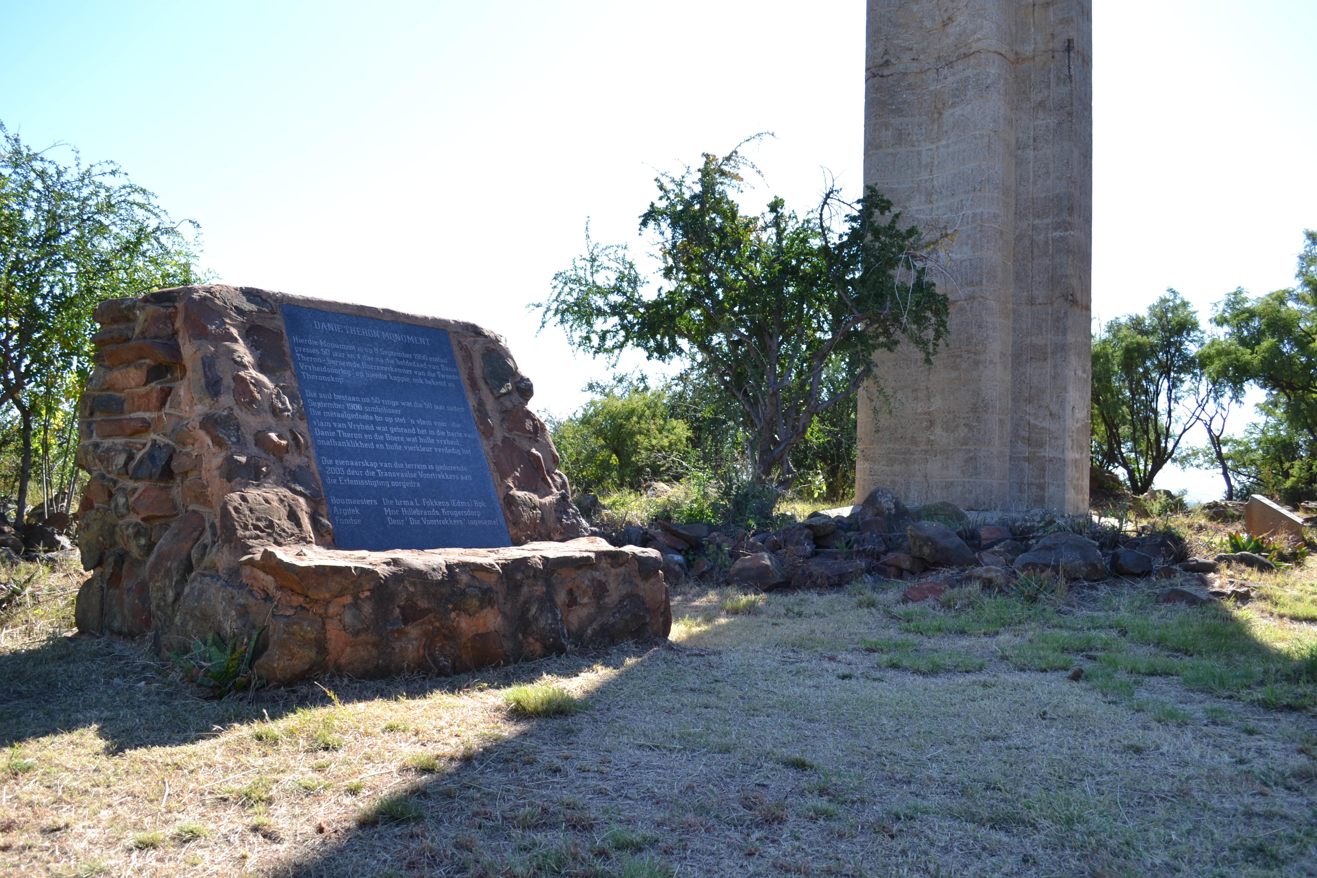 Danie Theron memorial is some 8 km west of the town of Fochville on the N12 to Potchefstroom North West South Africa This media shows a South African Protected Site with SAHRA file reference New.